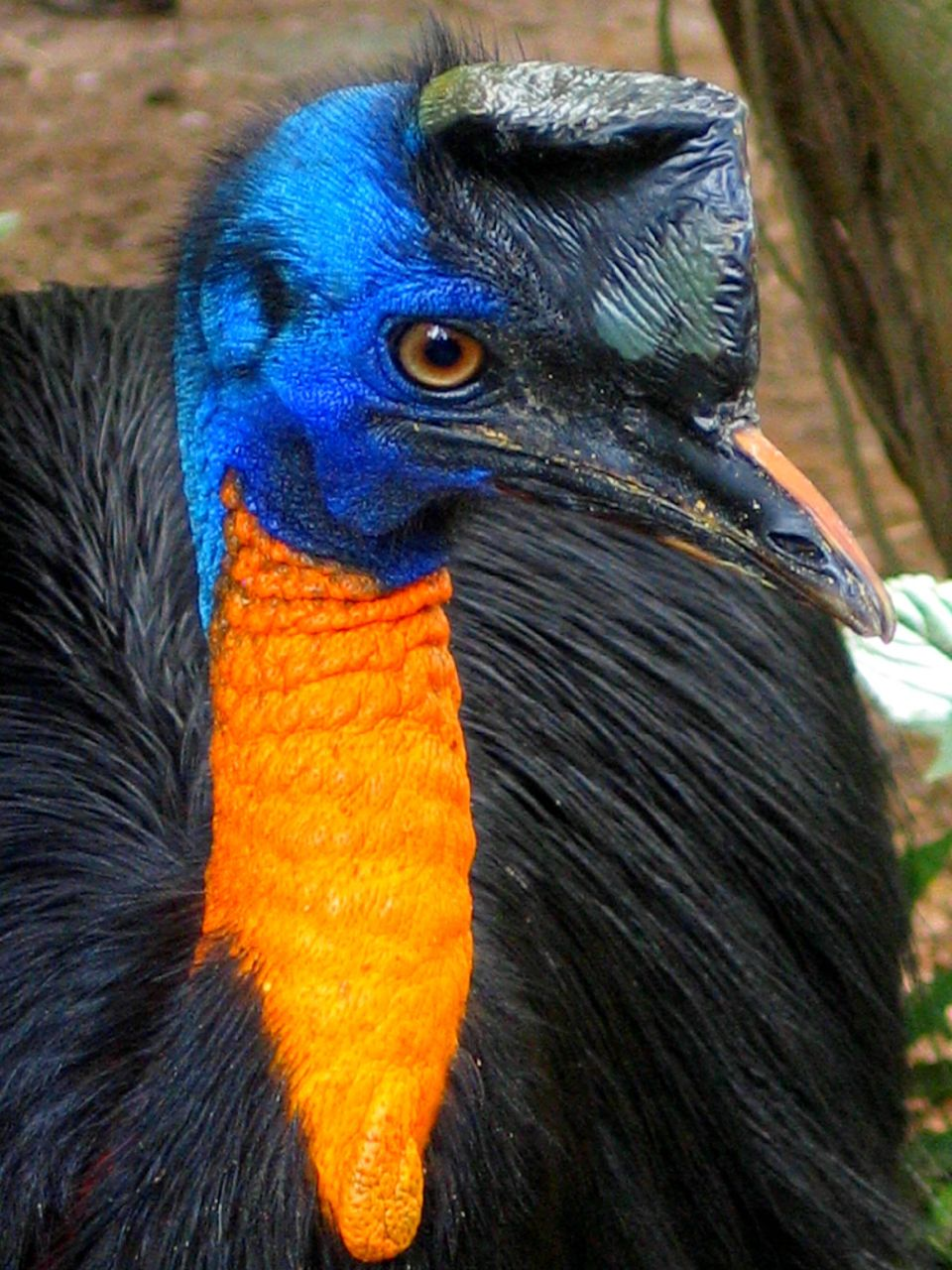 Northern Cassowary (Casuarius unappendiculatus) at Bali Bird Park. Upper body showing side of head and neck.